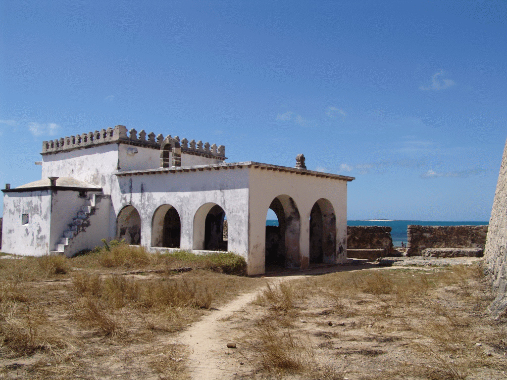 Full View of Nossa Senhora do Baluarte Chapel, in São Sebastião Fortres, Mozambique Island